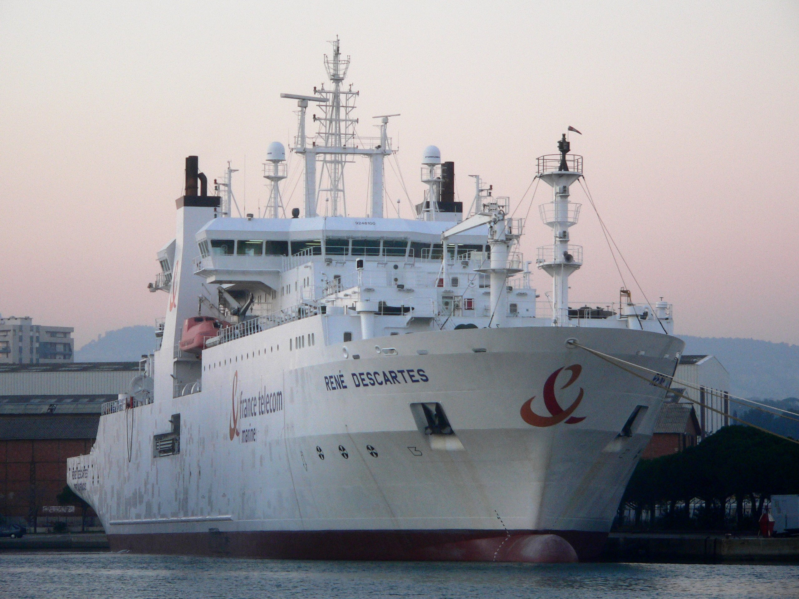 France Telecom Marine, cable-laying ship René Descartes, at sunset in the harbor of La Seyne sur Mer (near Toulon, France)